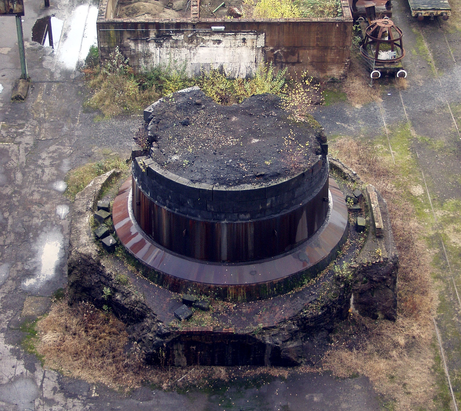 Salamander, the remnant left in a closed blast furnace, at Henrichshütte Hattingen, Germany